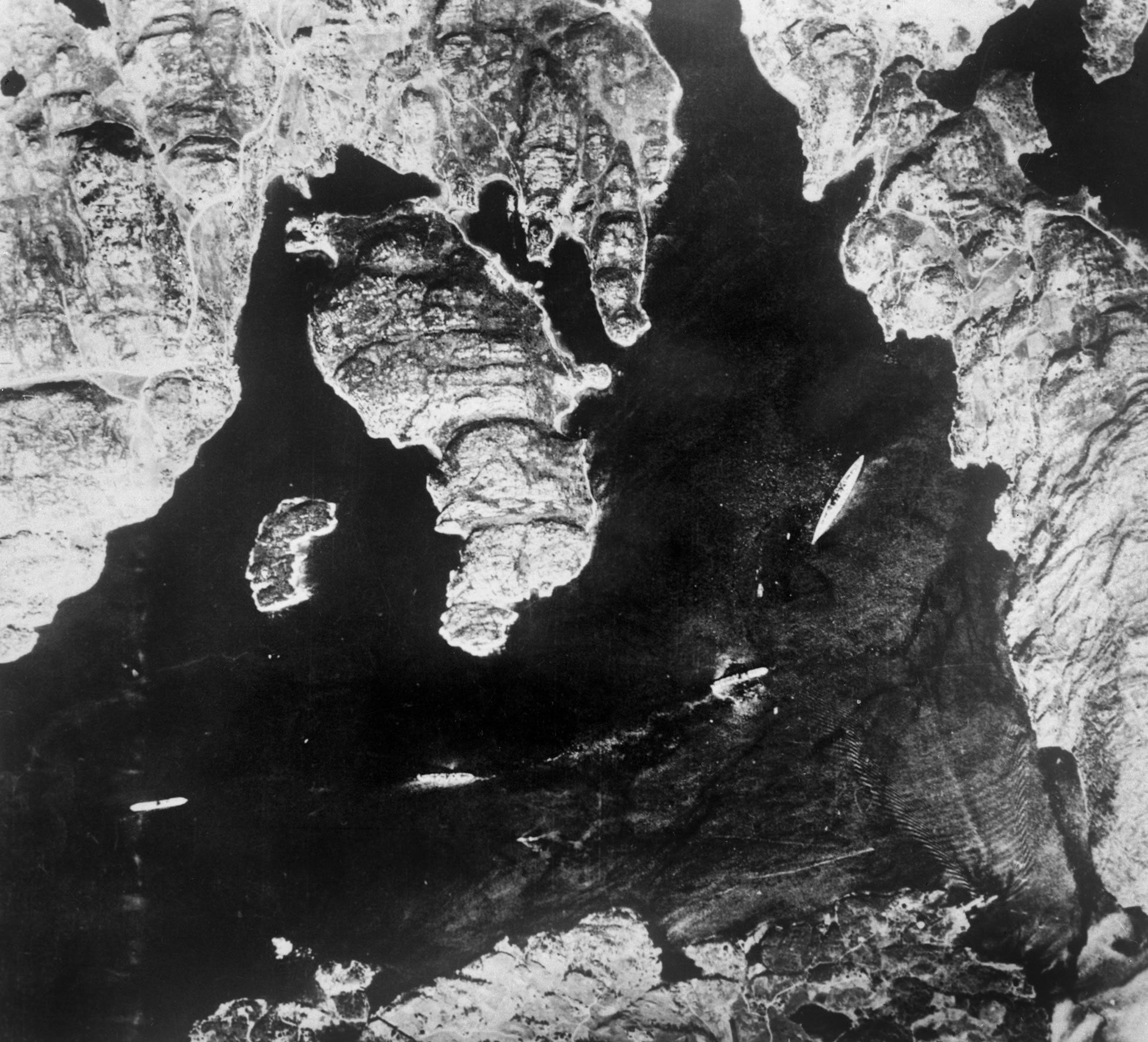 Description: Aerial reconnaissance photograph taken by Flying Officer Michael Suckling on 21 May 1941 in Norway.